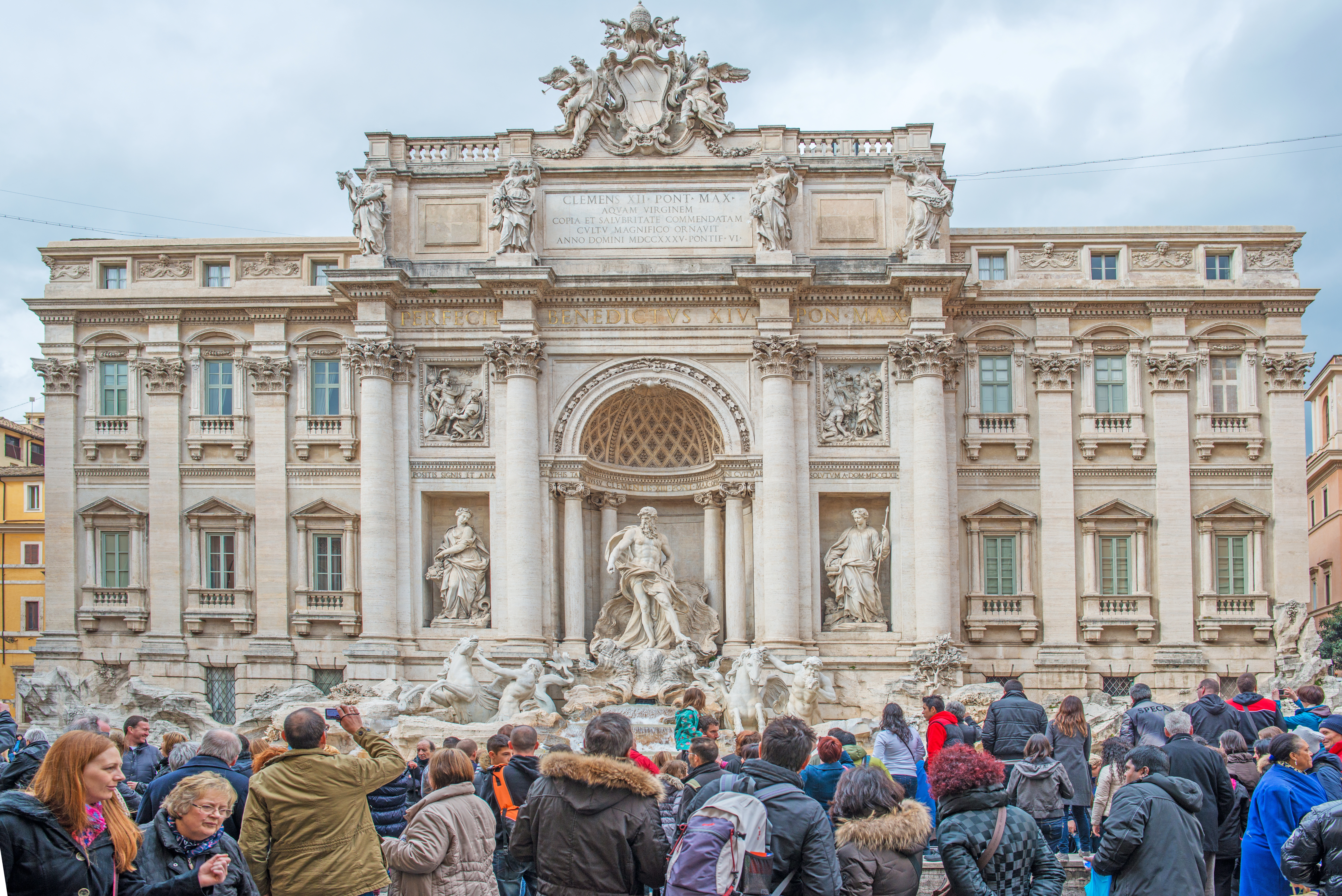 Fontana di Trevi Rome Italy February 2013